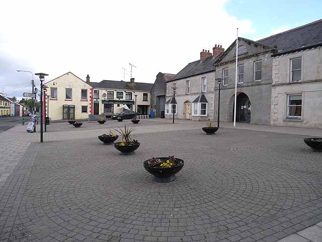 Market House, Arvagh The Market House is a fine building, erected some time before 1837, on the central square of the small town of Arvagh in County Cavan. Arvagh describes itself proudly as "where three provinces meet" - Leinster (County Longford), Connacht (County Leitrim) and Ulster (County Cavan) - at a point only 2 km from the town.